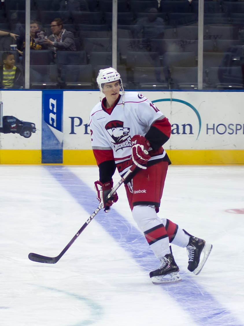 Brody Sutter Charlotte Checkers vs. Houston Aeros American Hockey League (AHL) March 10, 2013 It was "pooch party" night, which means people brought their dogs to the game.